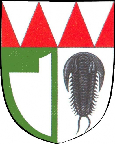 Coat of arms of Čelechovice na Hané, Prostějov District